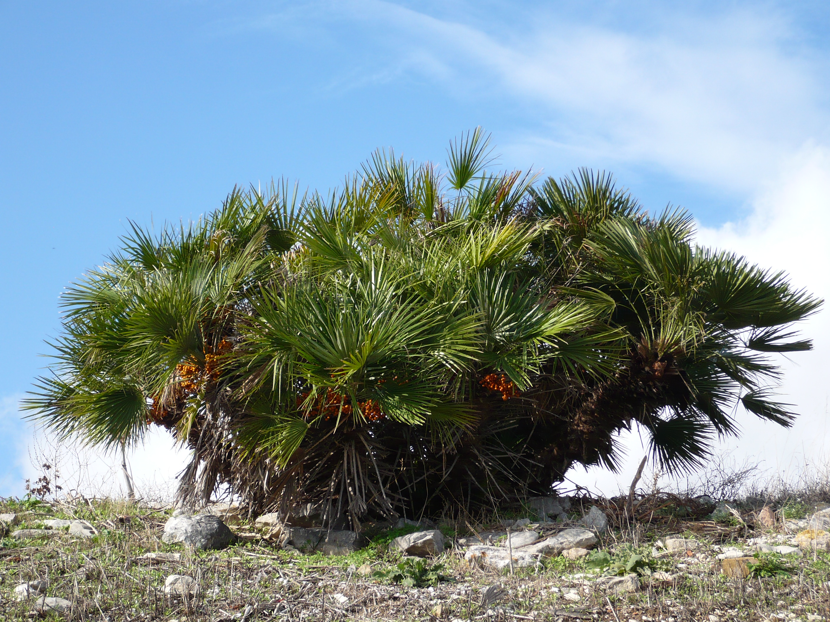 Saw palmetto (Chamaerops humilis) in Segesta